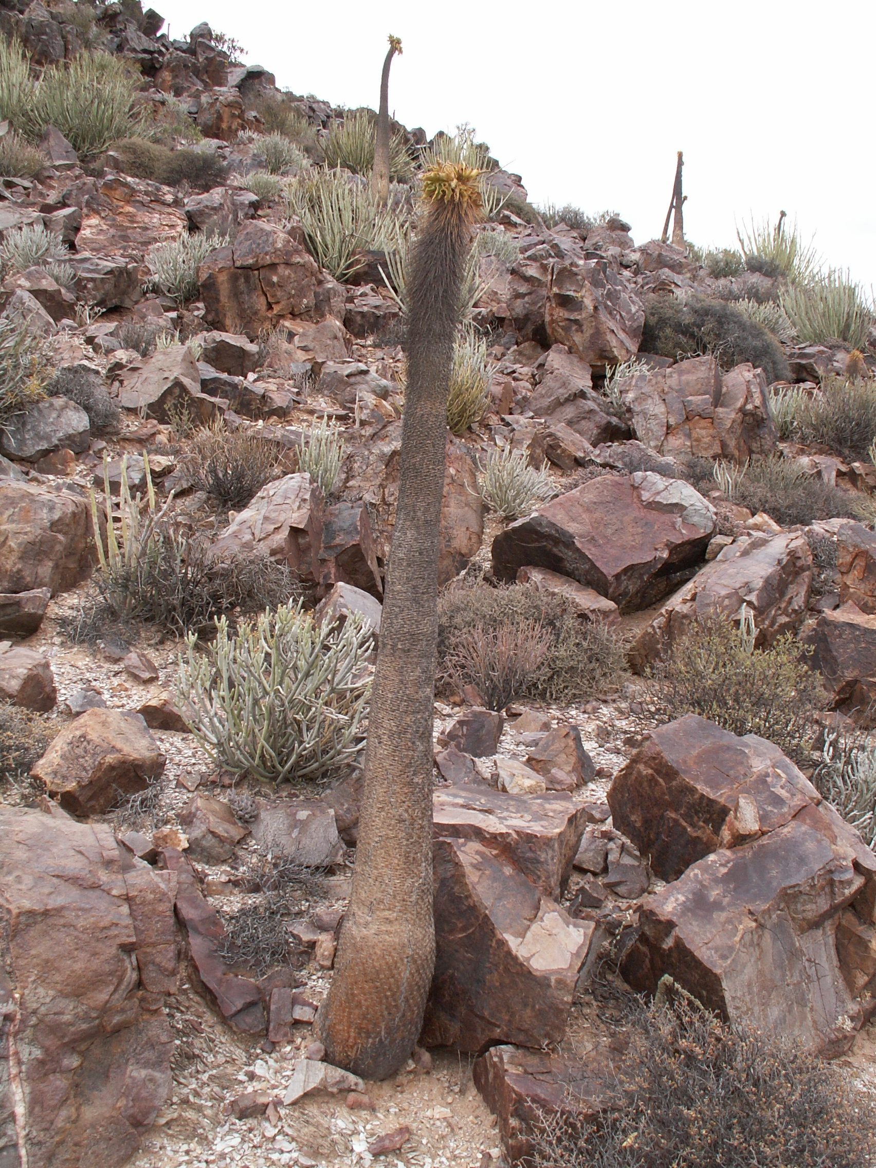 Halfmens, Half a man Pachypodium namaquanum (Wyley ex Harv.) Welw., Richtersveld National park, Northern Cape, South Africa